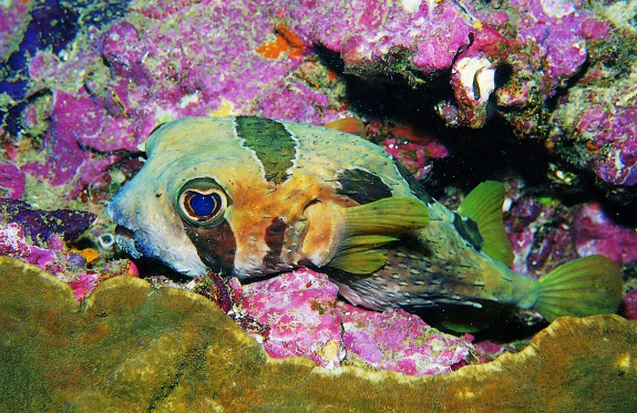 Diodon liturosus